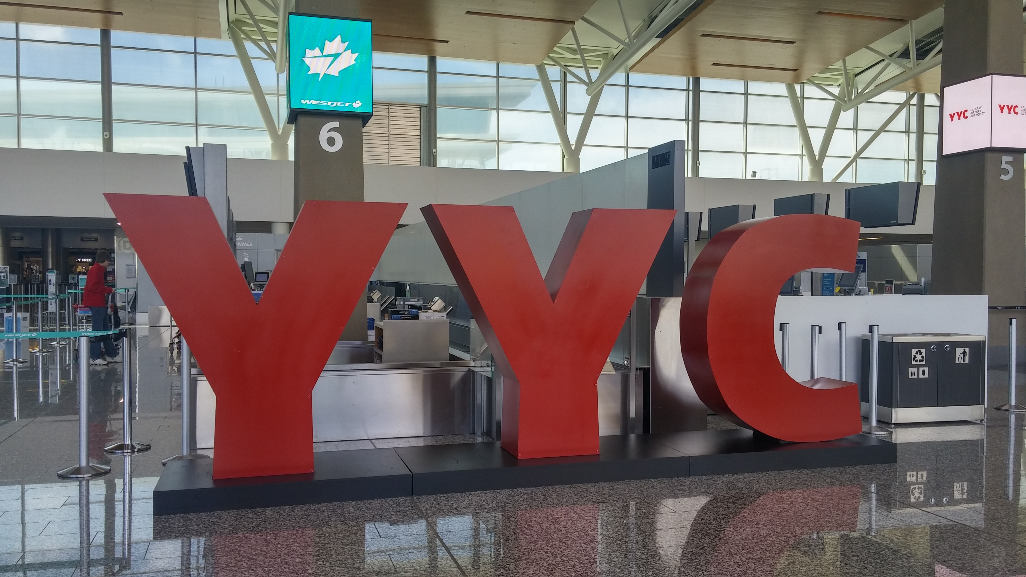 Calgary Airport